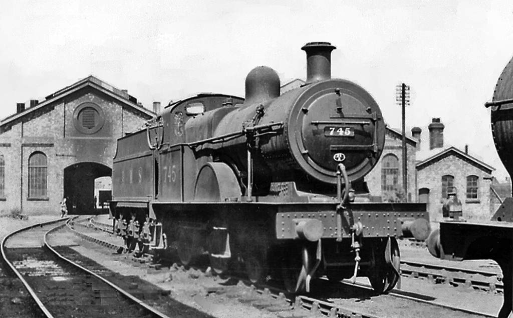 Bournville Locomotive Depot, with Midland 4-4-0. Near to Bournville, Birmingham, Great Britain. View northward, outside the Shed, which was on the Up side of the West Suburban (now Cross-City) line into Birmingham New Street from Kings Norton and the South. The 4-4-0 is ex-Midland 3P No. 745; a Class formerly working principal expresses, but the last was scrapped in September 1952.